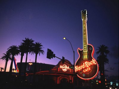 A rock